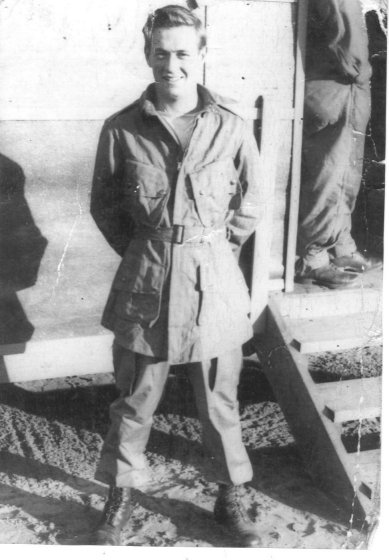 Warren Muck during World War II.